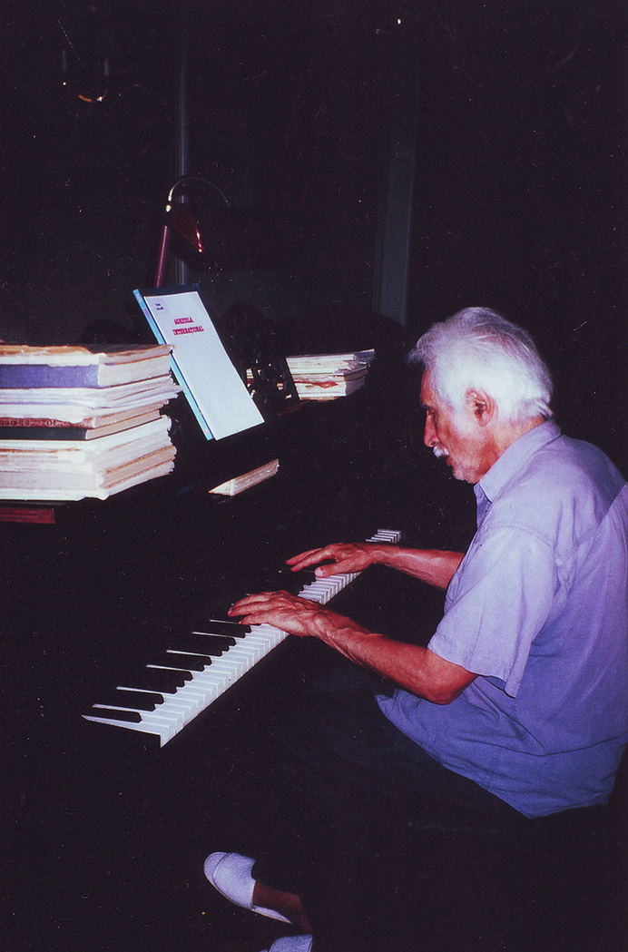 La pian